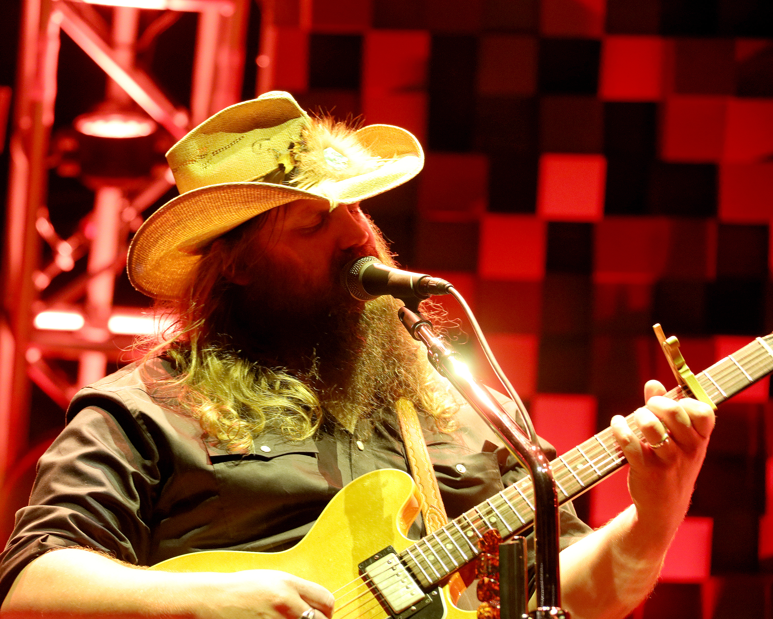 Governor Hogan Attends the Chris Stapleton Concert at Merriweather Post Pavilion.